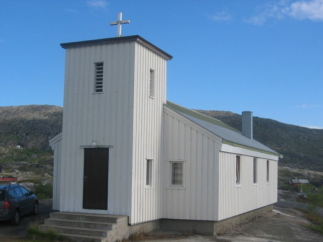 Bjoernfjell chapel in Narvik